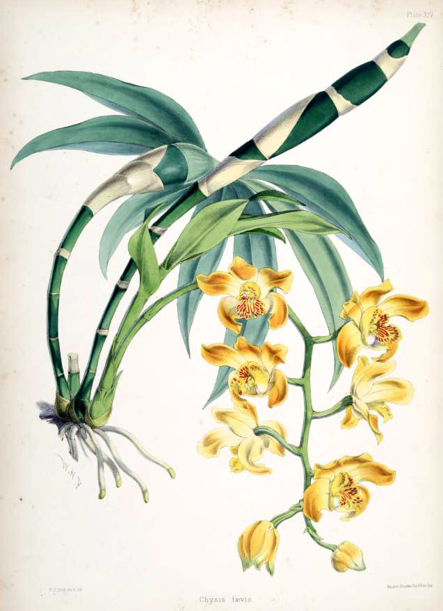 Illustration of Chysis laevis